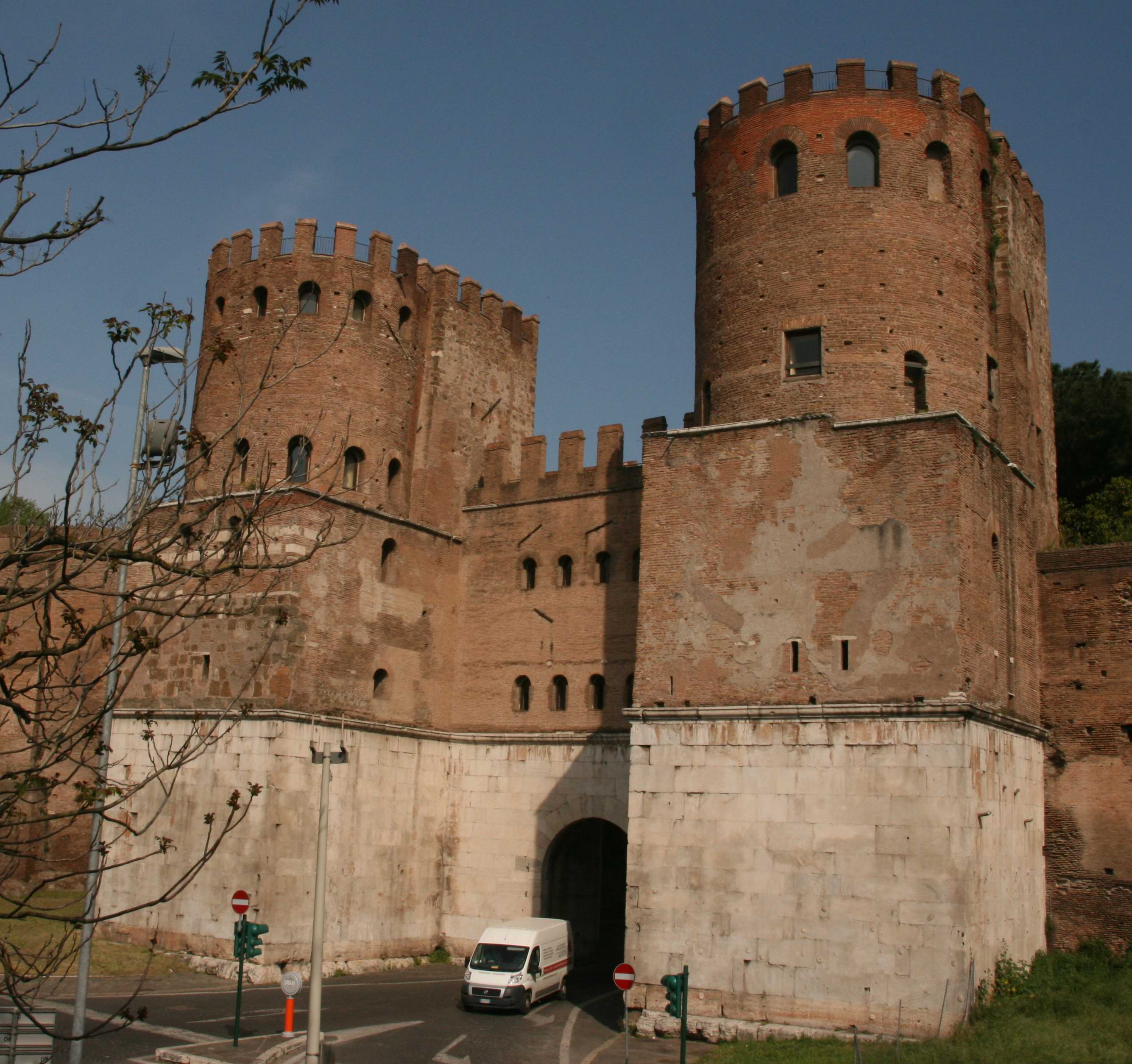 The Gate of San Sebastian and museum of the walls. Rome, Via Appia.